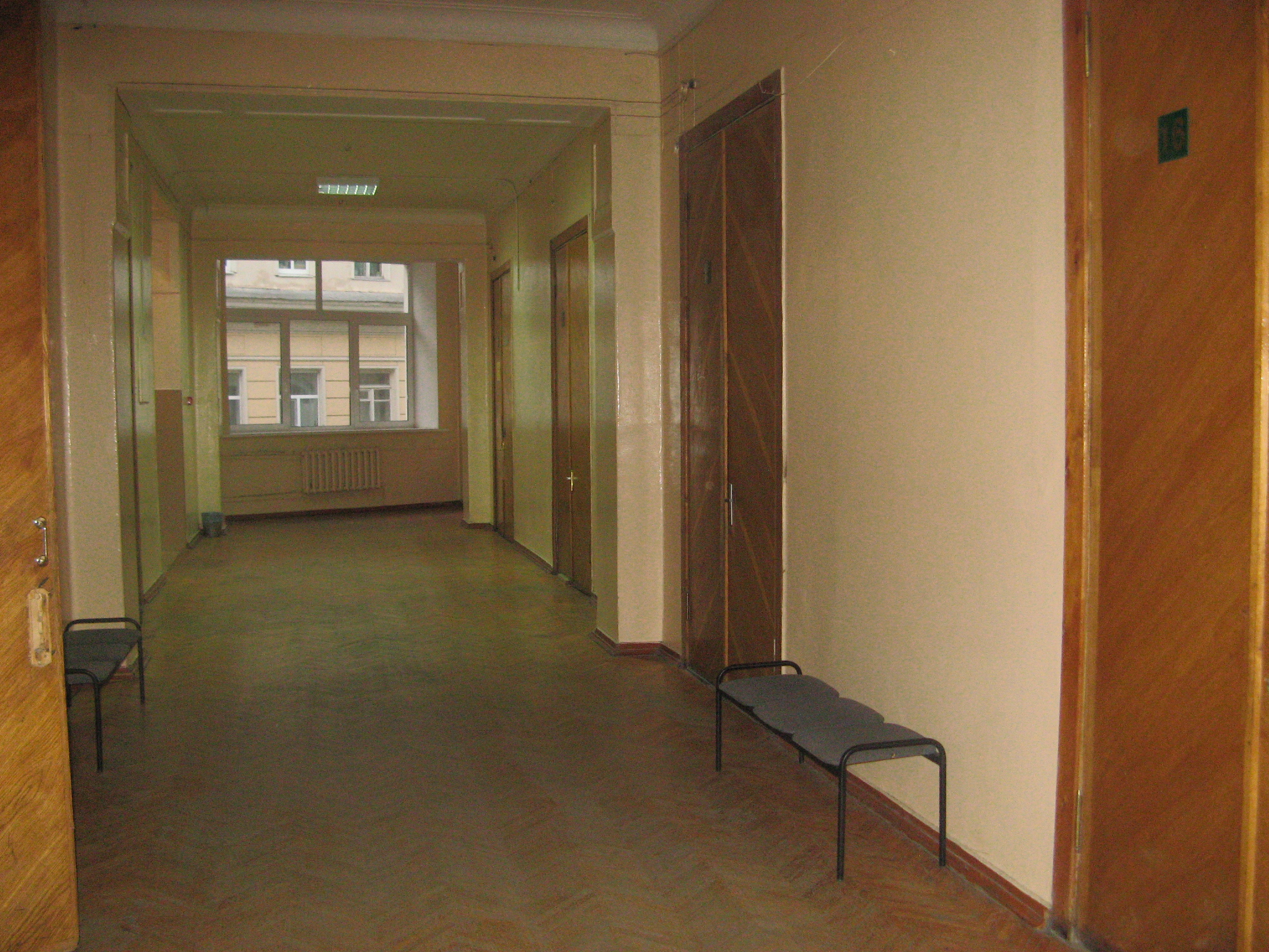 Interioir of the Academy music college(former Building of the Grammar school 110), Merzlyakovsky 11, Moscow, Russia.